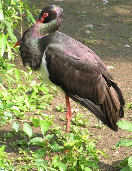 Black Stork